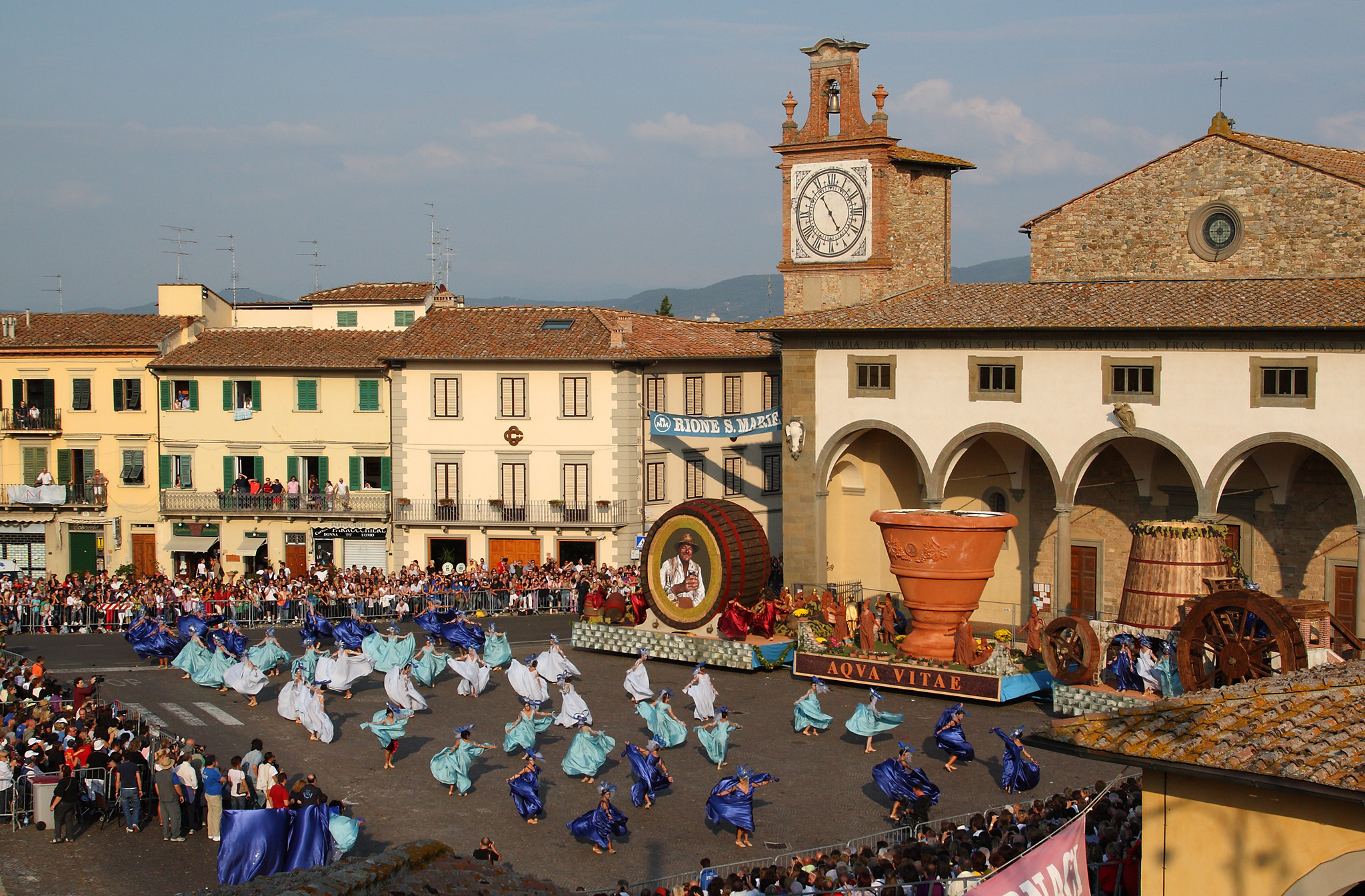 Wine feast in piazza Buondelmonti, Impruneta - Italy